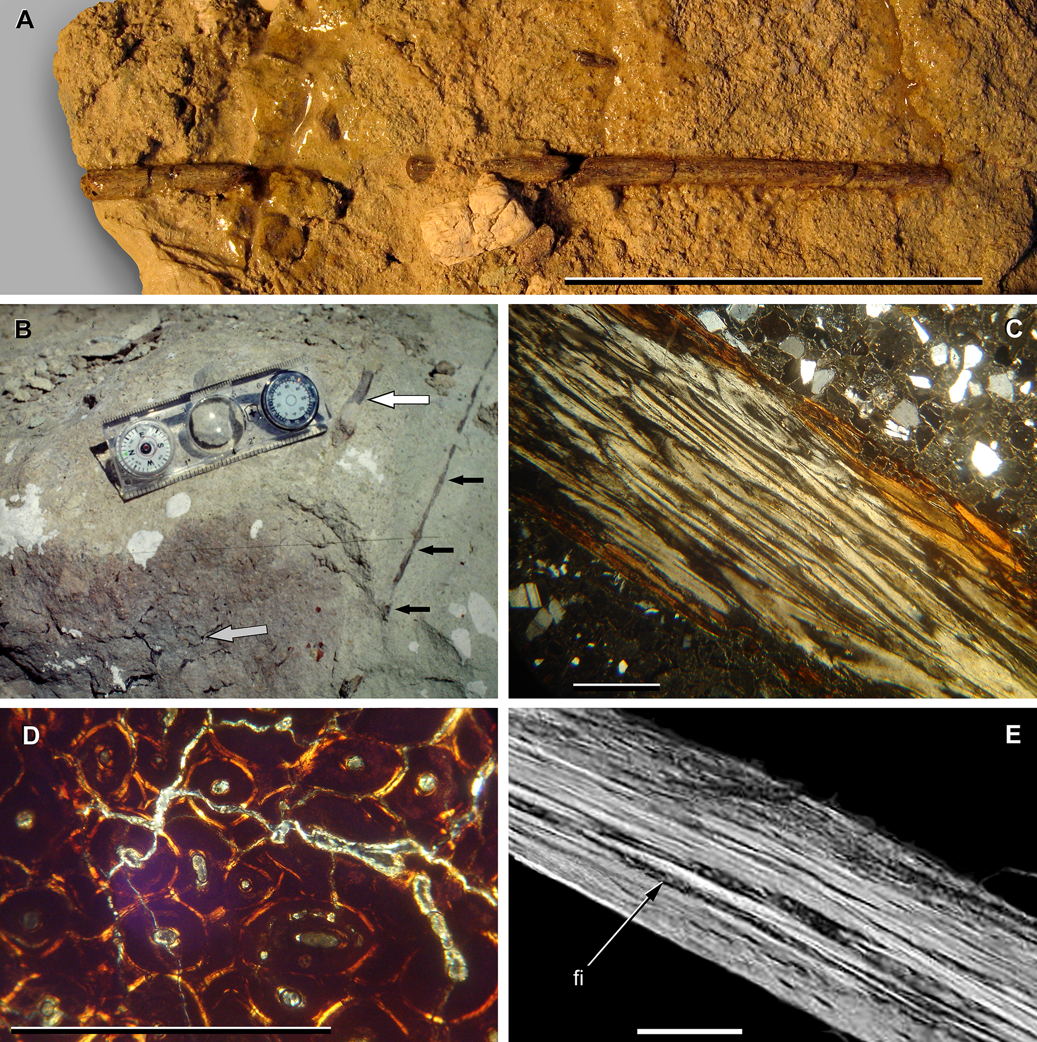 Ossified cervical tendon of Sarmientosaurus musacchioi gen. et sp. nov. (MDT-PV 2). (A) Section of tendon. (B) Field photograph showing relative dispositions of the camellate tissue of a cervical vertebra (hatched arrow), a cervical rib (white arrow) and the cervical tendon (black arrows) upon discovery. (C) Longitudinal thin-section of tendon showing longitudinal structures compatible with fibroblasts (near the top of the thin-section). (D) Transverse thin-section showing Haversian tissue. (E) Longitudinal thin-section (crossed polars, 100×) of tendon of Podilymbus (grebe) showing fibroblasts (modified from Organ and Adams [174]). Abbreviation see text. Scale bars = 5 cm in A; 1 mm in C–D; 0.1 mm in E.